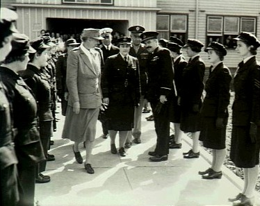 Melbourne, Vic. Eleanor Roosevelt (left), accompanied by Group Officer Clare Stevenson (centre), and Air Commodore F. W. Lukis, Air Member for Personnel (right), passes along the WAAAF Guard of Honour mounted on the occasion of Mrs Roosevelt's visit to Air Force Headquarters (AFHQ), Victoria Barracks.